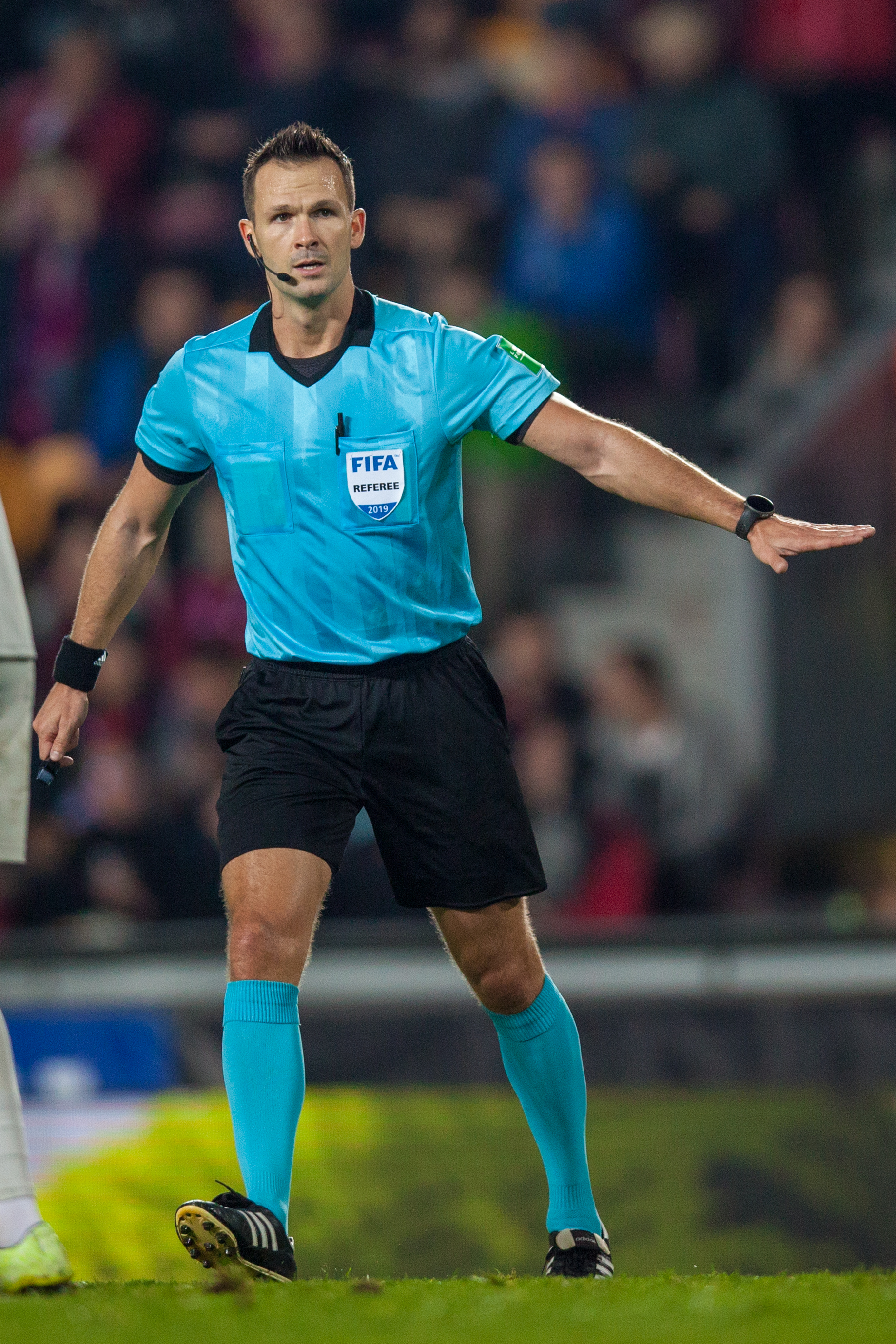 Ivan Kružliak (referee) in an international friendly match between Czech Republic and Northern Ireland (2:3), Stadion Letná (Prague) 2019-10-14 The making of this work was supported by Wikimedia Austria. For other files made with the support of Wikimedia Austria, please see the category Supported by Wikimedia Österreich. Personality rights warningAlthough this work is freely licensed or in the public domain, the person(s) shown may have rights that legally restrict certain re-uses unless those depicted consent to such uses. In these cases, a model release or other evidence of consent could protect you from infringement claims.